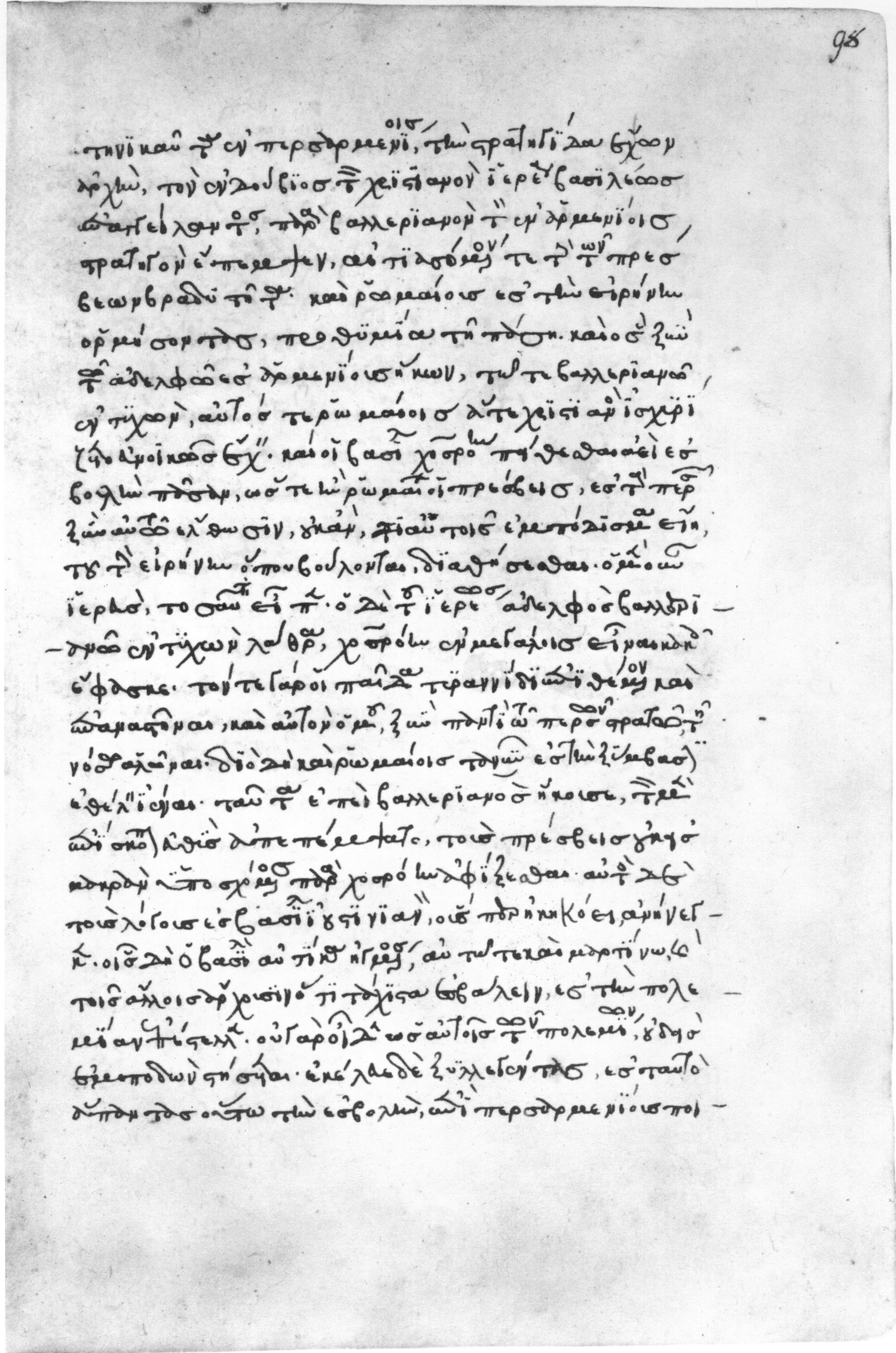 Procopius, De bellis, in ms. Venice, Biblioteca Marciana, Gr. 398, fol. 98r.